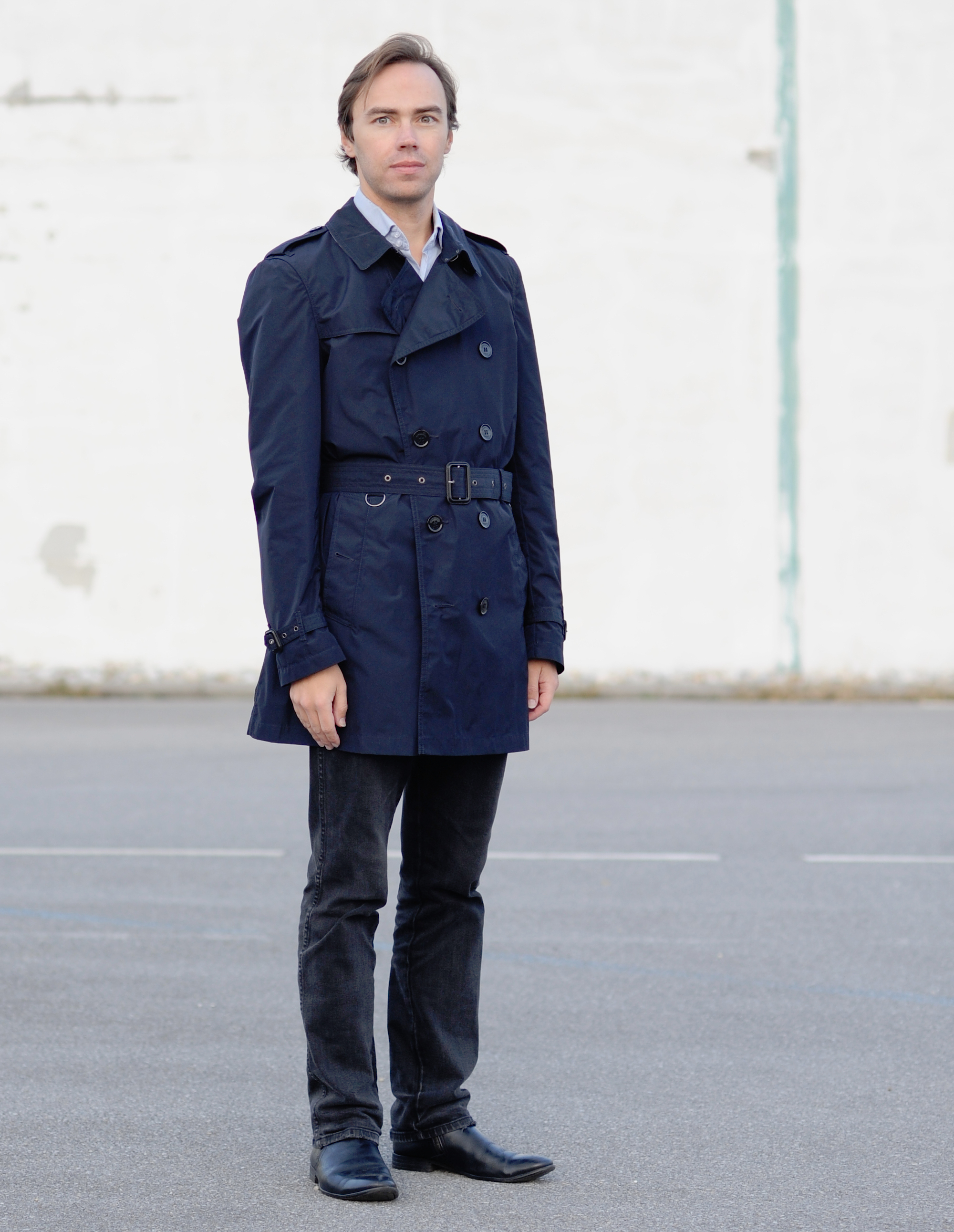 Man wearing a trenchcoat.